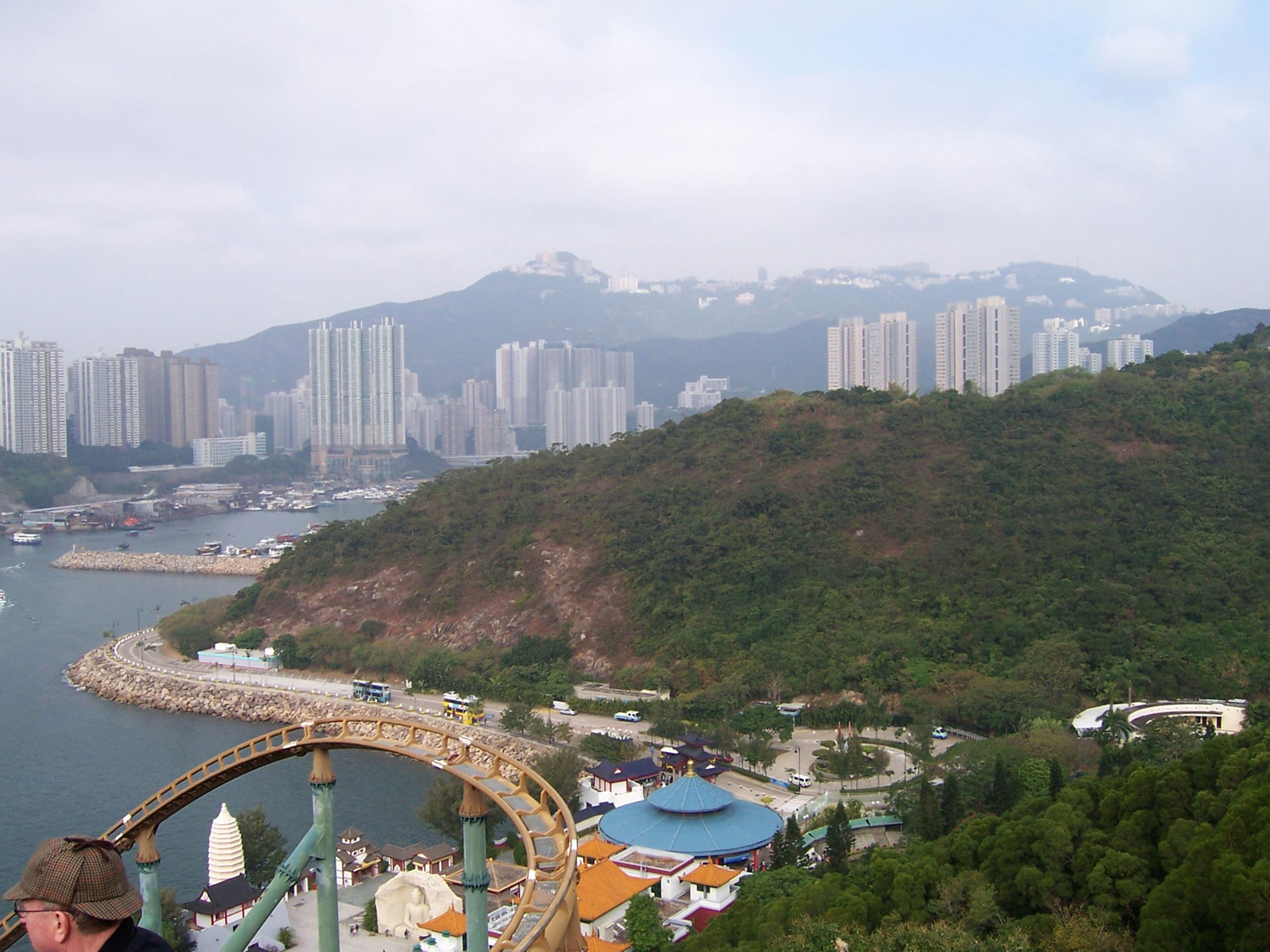 Tai Shue Wan as viewed from Ocean Park, Hong Kong. Taken by Enoch Lau on 1 January 2006. As a courtesy, please let me know if you alter this image or this image description page. Original filename was 100_1048.JPG.